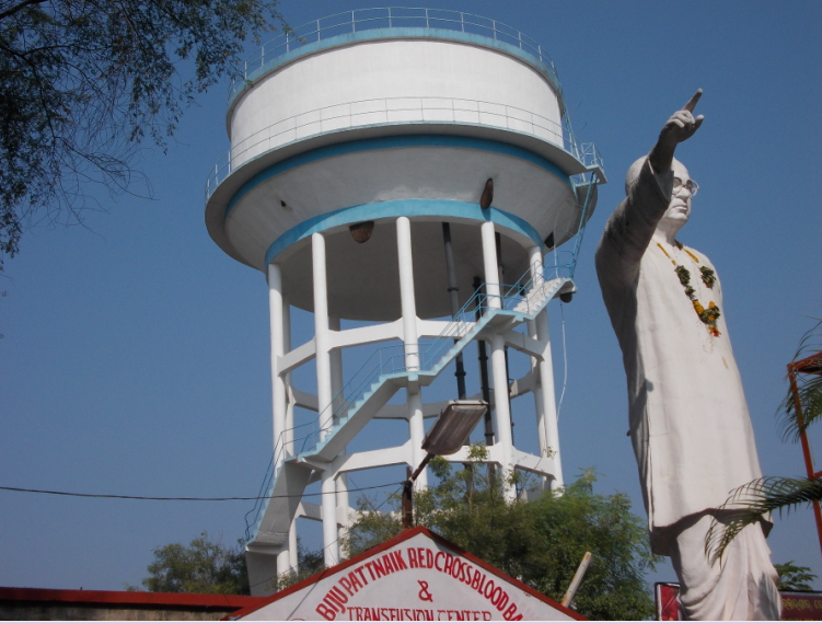 Blood bank